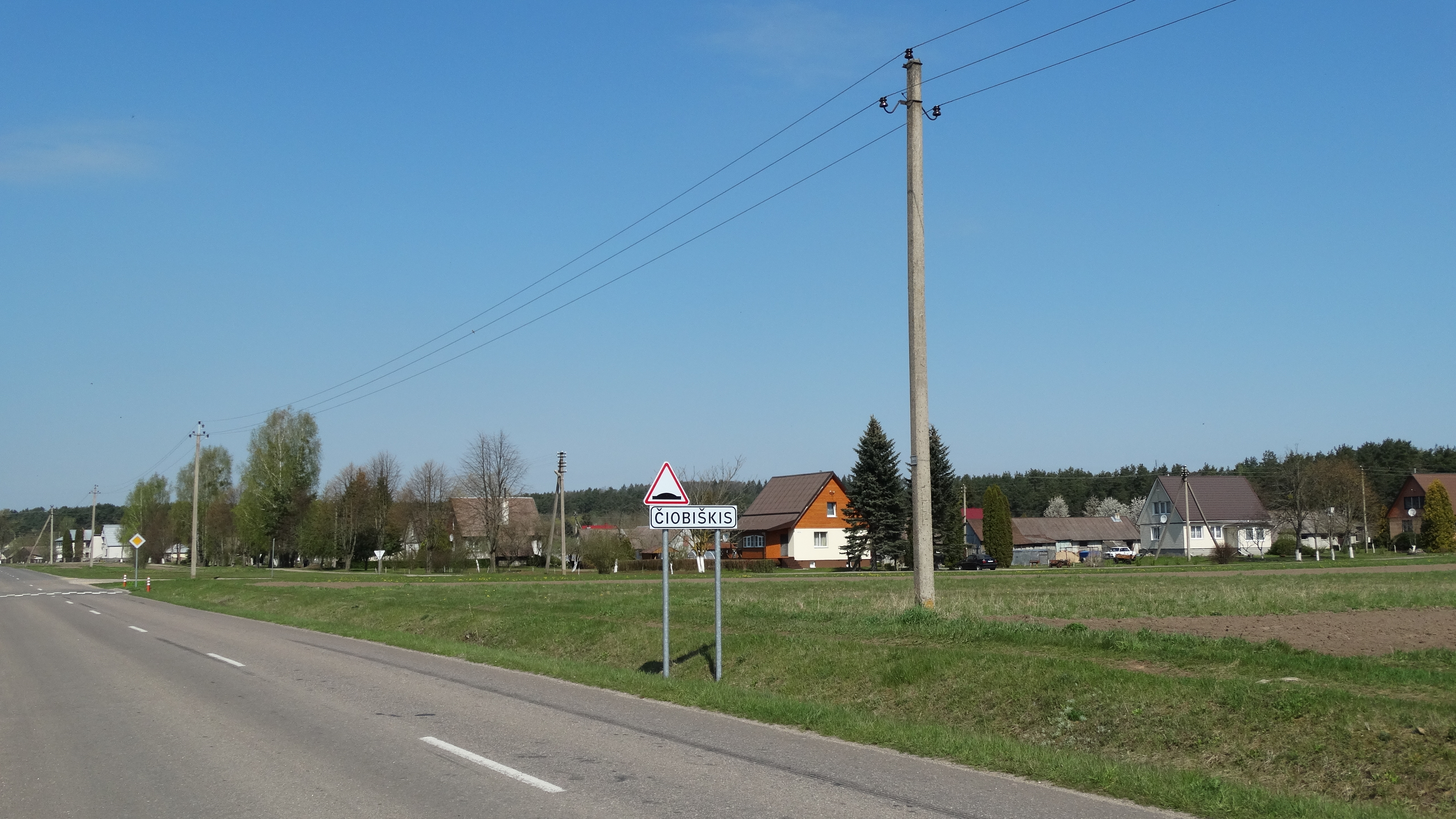 Čiobiškis, Širvintos District, Lithuania